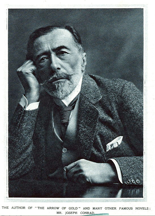 Joseph Conrad Print Collection portrait file.